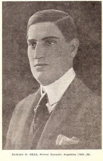 Damian Reca (1894-1937), first national chess champion in Argentina.